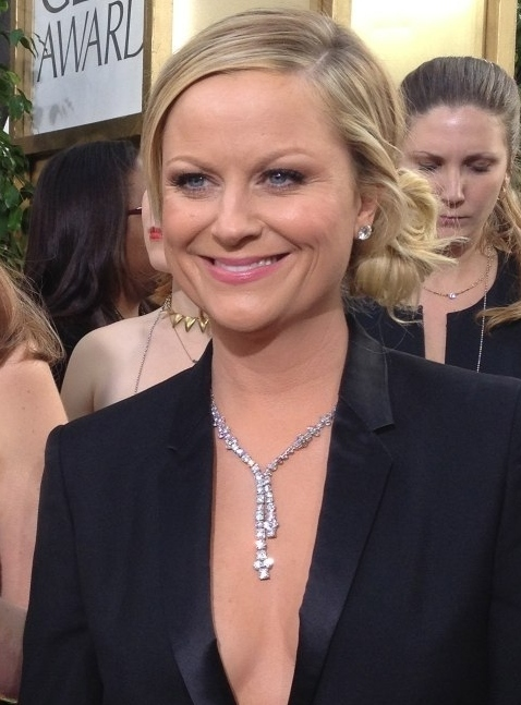 Amy Poehler at the Golden Globes 2013.